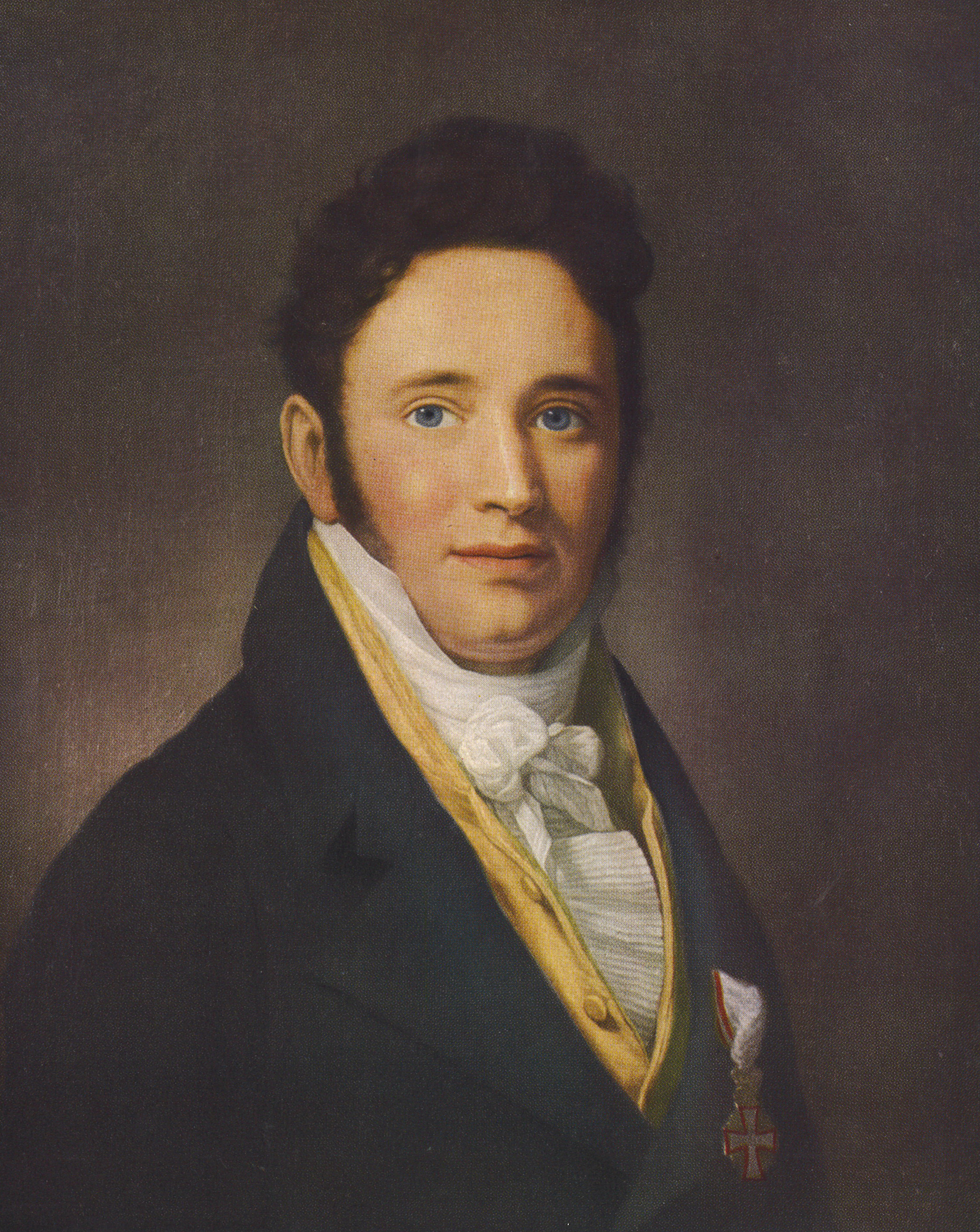 Adam Oehlenschläger (1779-1850), Danish poet and playrwight.